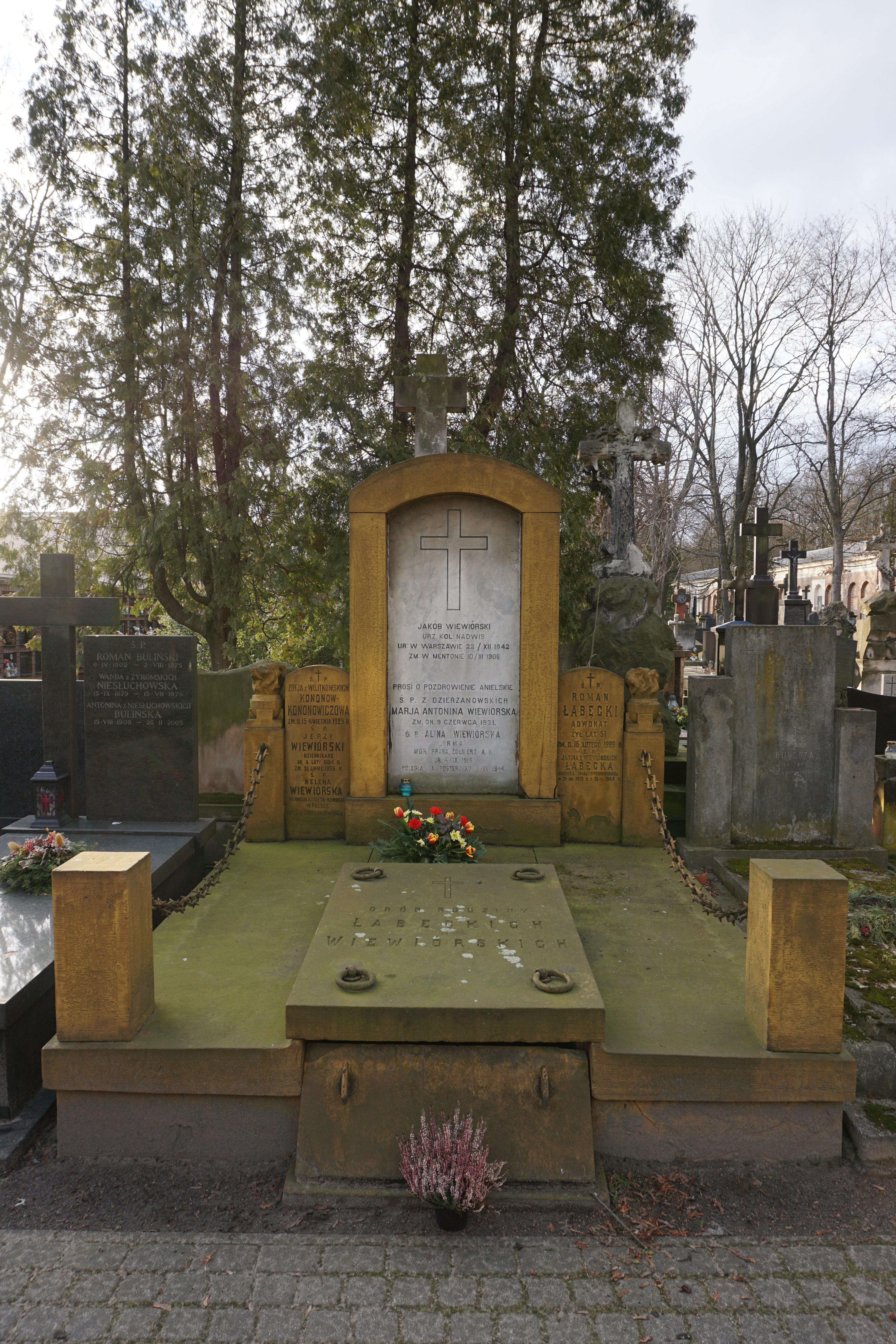 The grave of Helena Wiewiórska at the Powązki Cemetery (section 166, row 3, grave 23, 24)